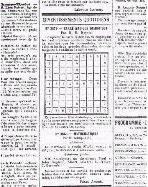 A 9x9 magic square from 1895 which also appears to be one of the earliest known sudokus.